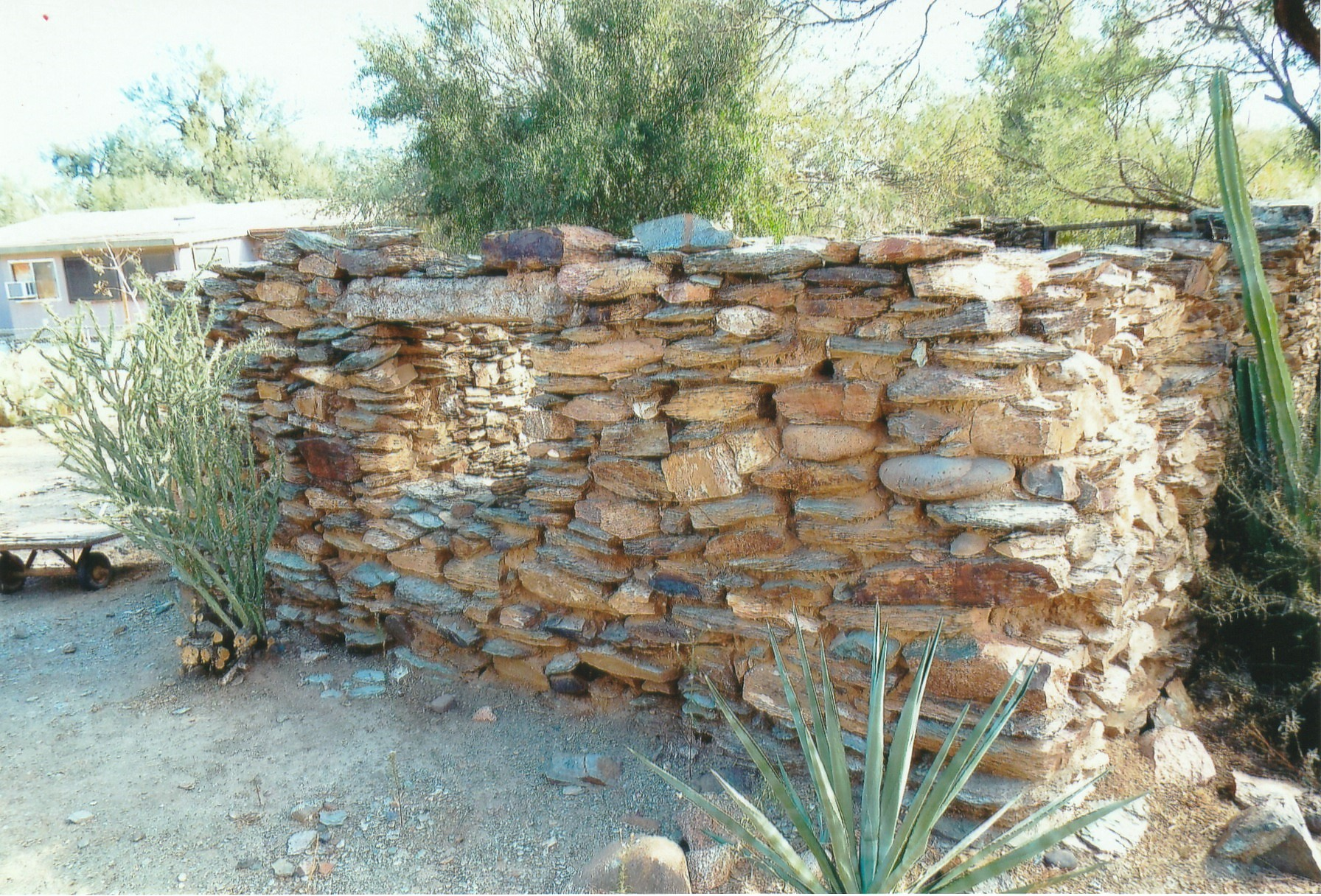 The ruins of the Jack and Trinidad Swilling Cabin - The 1868, ruins of the Swilling cabin is the oldest structure still standing in Black Canyon City.